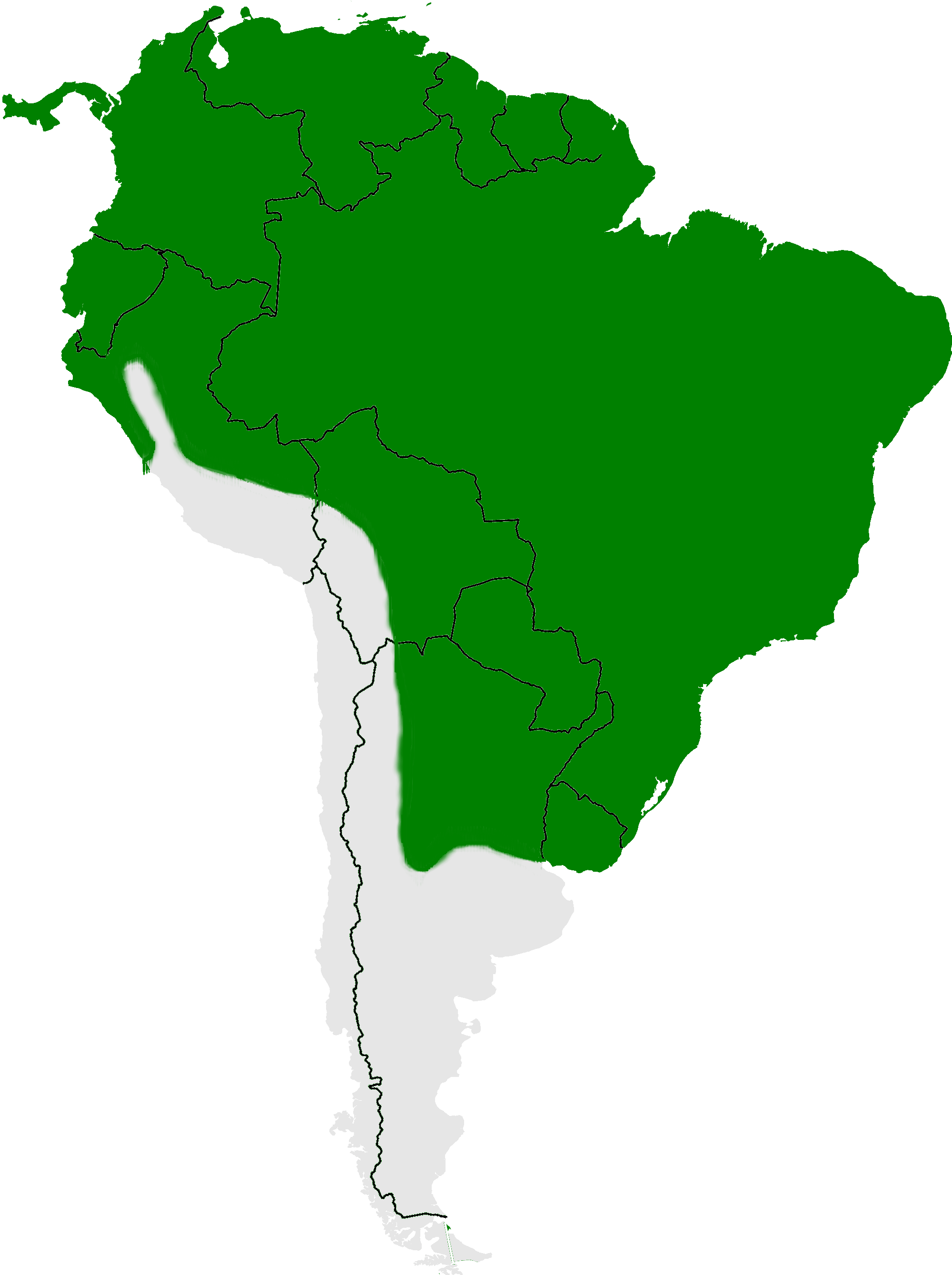 Distribution of the Southern Beardless Tyrannulet